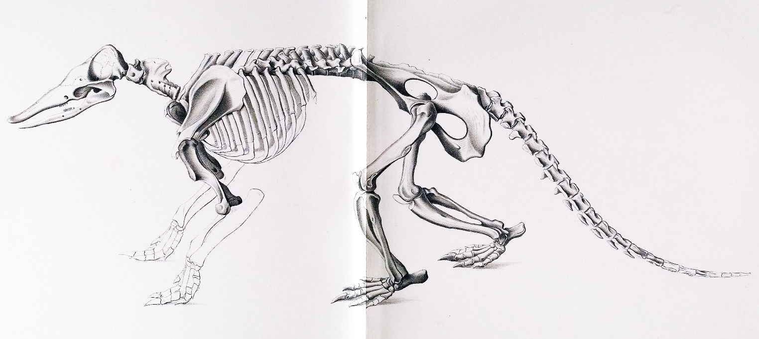 Stegotherium skeleton. Reports of the Princeton University Expeditions to Patagonia, 1896-1899. Princeton,The University,1901-32 [v. 1, 1903].